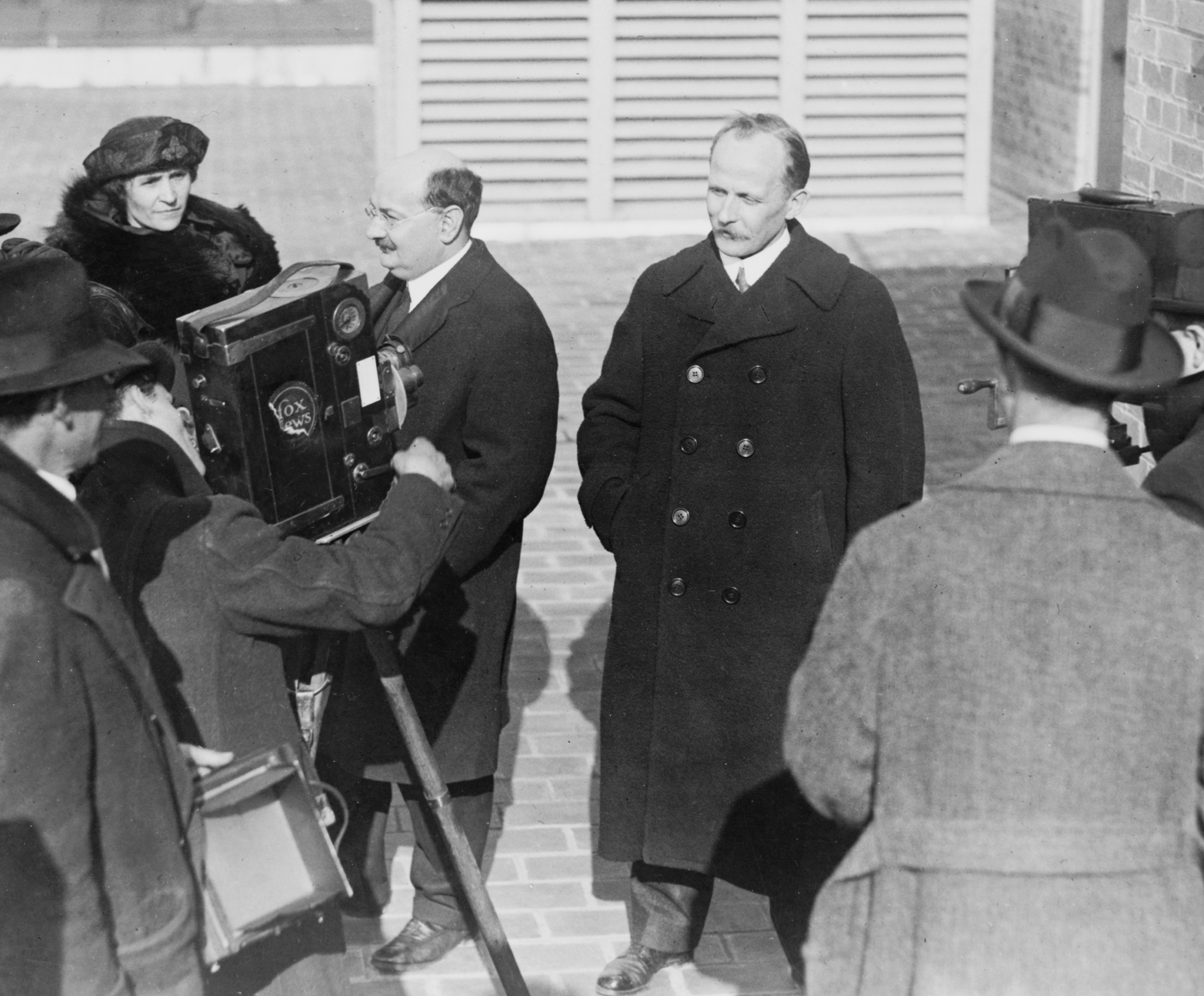 Santeri Nuorteva and Ludwig Martens, Russian Soviet Government Bureau. Posing for newsreel cameramen, New York City, 1920.